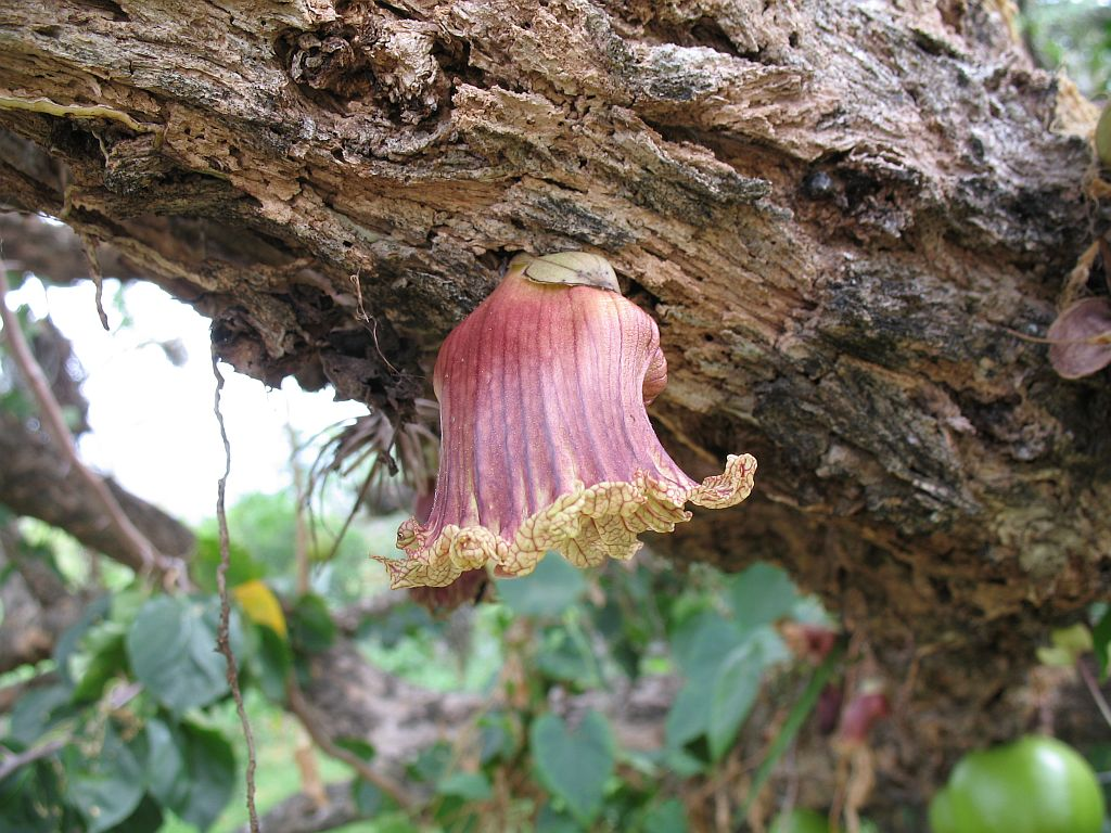 Crescentia cf. cujete in habitat in Guatemala, near of Zacapa.